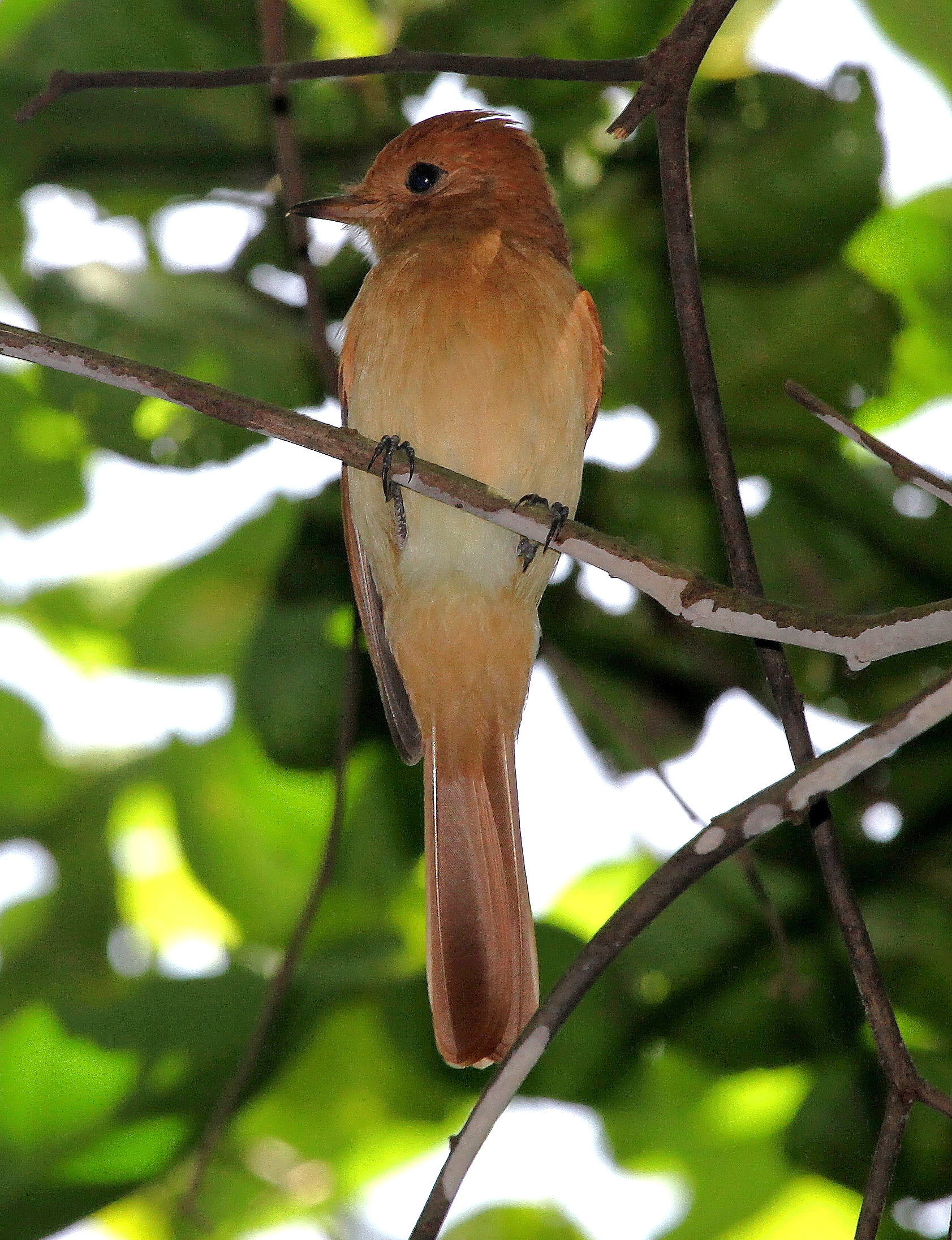 Rufous Casiornis at Bonito - MS - Brazil